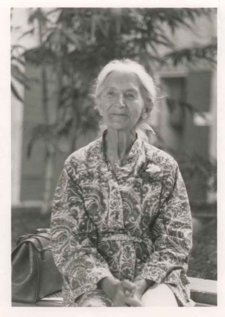 Bartenieff was born in Germany (1900- 1981). Her activities revolving around biology, art, and dance, became sharply focused when she met Rudolf Laban in 1925 and began to study with him and his colleagues. She received a Laban diploma in Berlin and was the only holder of this certificate practicing in the United States.